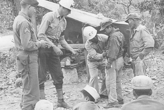 Check of plunder prevention, So-called Senka-Agyaa